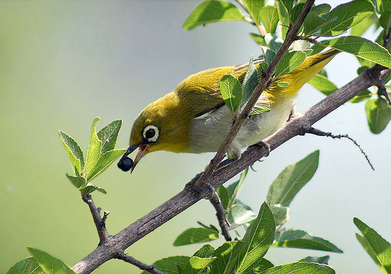 Oriental White-eye Zosterops palpebrosus in Kullu District of Himachal Pradesh, India.